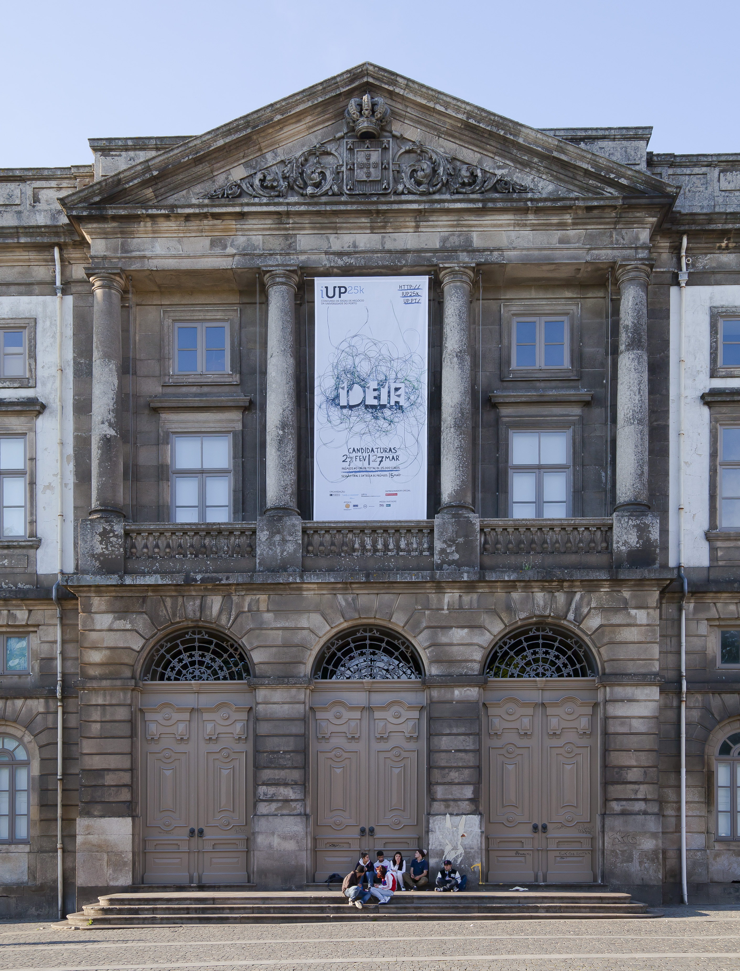 Rectorship of the University of Porto, Portugal